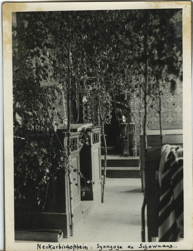 Description: Interior of the Neckarbischofsheim Synagogue decorated for Shavuot Medium: black & white photograph Date: 1848 Persistent URL: Repository: Yeshiva University Museum Accession number: 1985.103 Rights Information: No known copyright restrictions; may be subject to third party rights. For more copyright information, click here. See more information about this image and others at CJH Museum Collections.